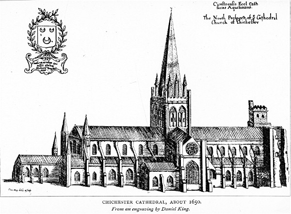 Chichester Cathedral about 1650 - from Project Gutenberg eText 13331: Bell's Cathedrals: Chichester (1901) by Hubert C. Corlette